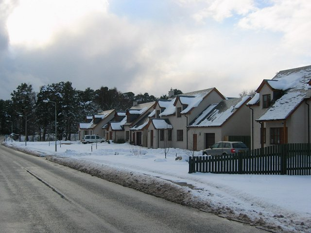 Nethy Bridge. New houses on the west side of the village. Looking west.